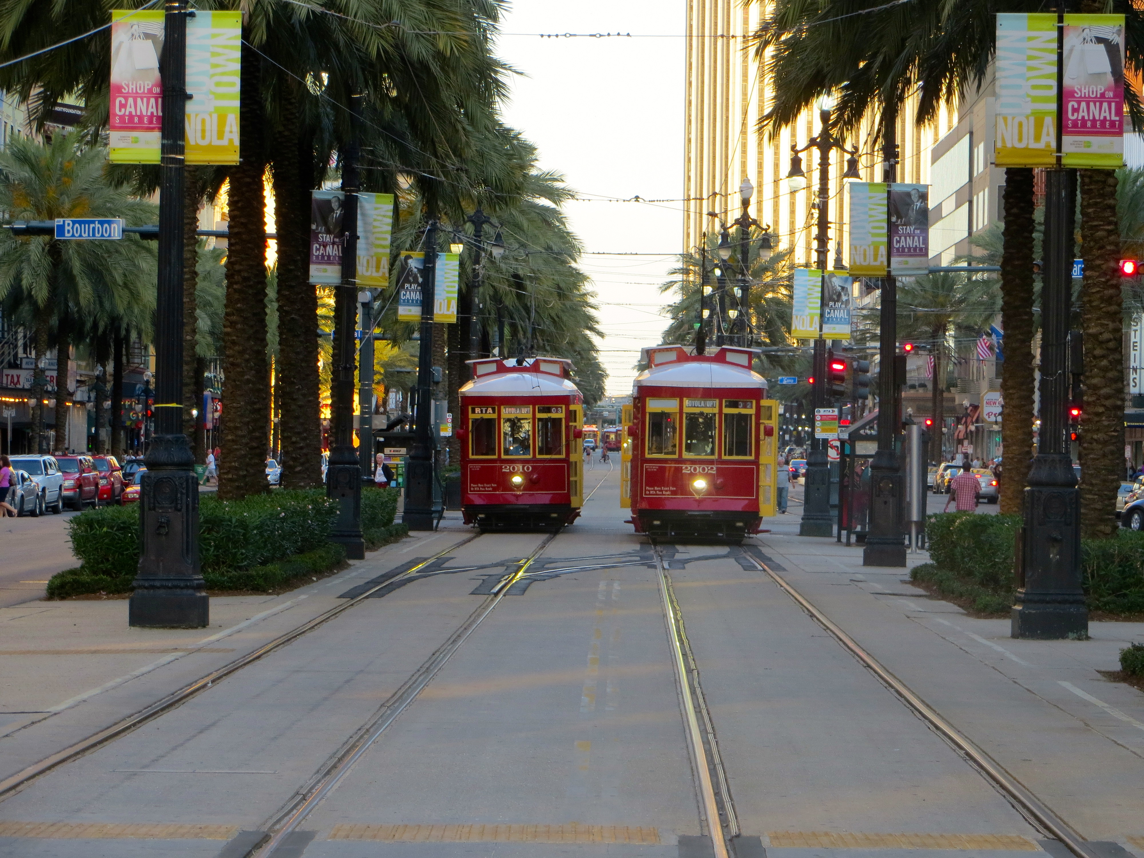 Streetcars on Canal Street in May 2013, looking towards the river.